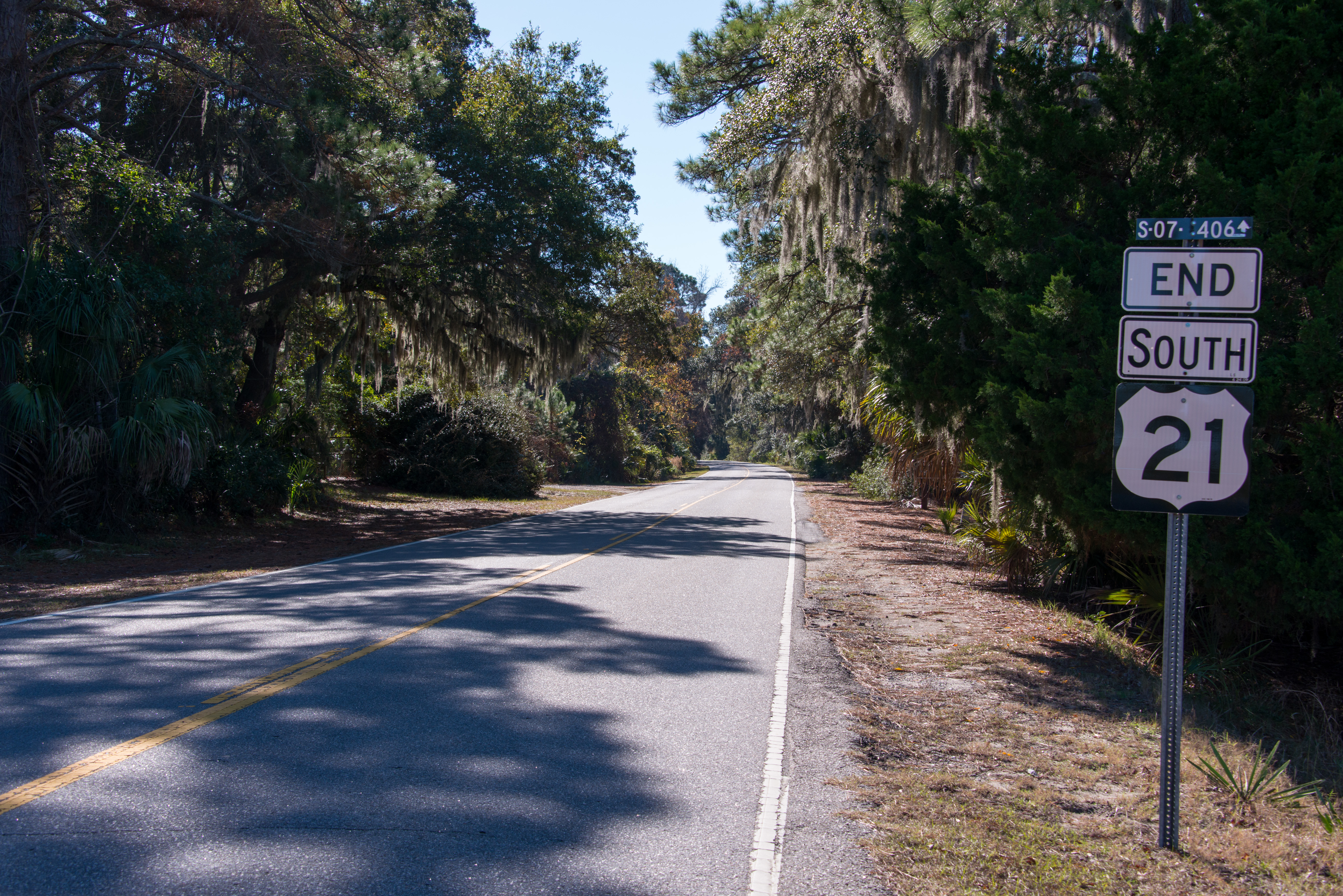 Eastern end of U.S. Route 21 on Hunting Island — in Beaufort County, southern coastal South Carolina. Location of Hunting Island State Park.